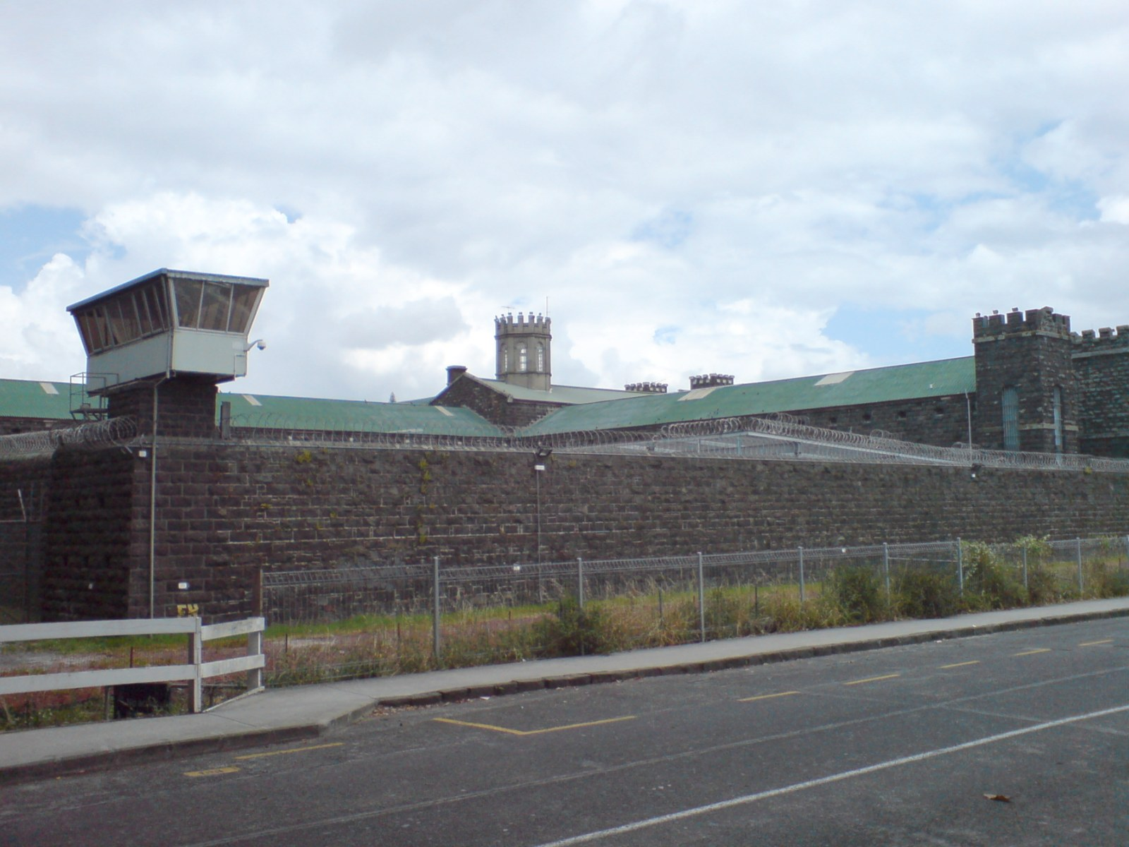 Northern frontage (railroad side) of the older section of Mount Eden Prisons, Auckland City, New Zealand.